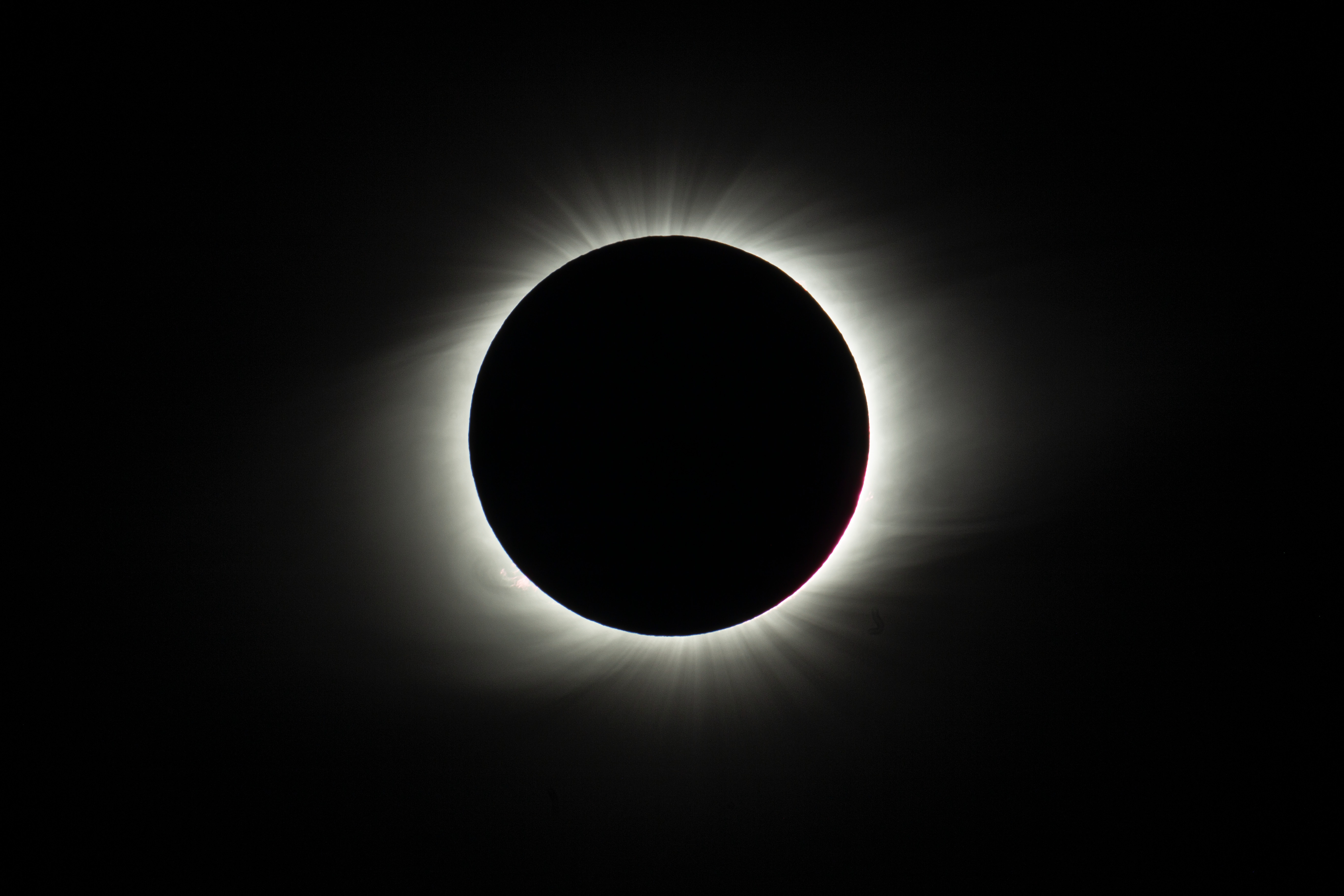 On 2 July 2019, a total solar eclipse passed over ESO’s La Silla Observatory in Chile. This image shows the Sun completely covered by the Moon during totality, revealing the solar corona, or the Sun's atmosphere. While totality only lasted about two minutes, the eclipse overall lasted over two hours and was visible across a narrow band of Chile and Argentina. To celebrate this rare event ESO invited 1000 people, including dignitaries, school children, the media, researchers, and the general public, to come to the Observatory to watch the eclipse from this unique location.